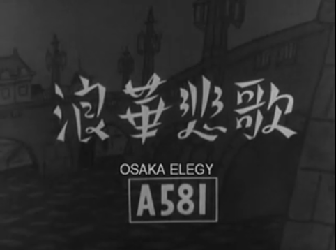 Osaka Elegy